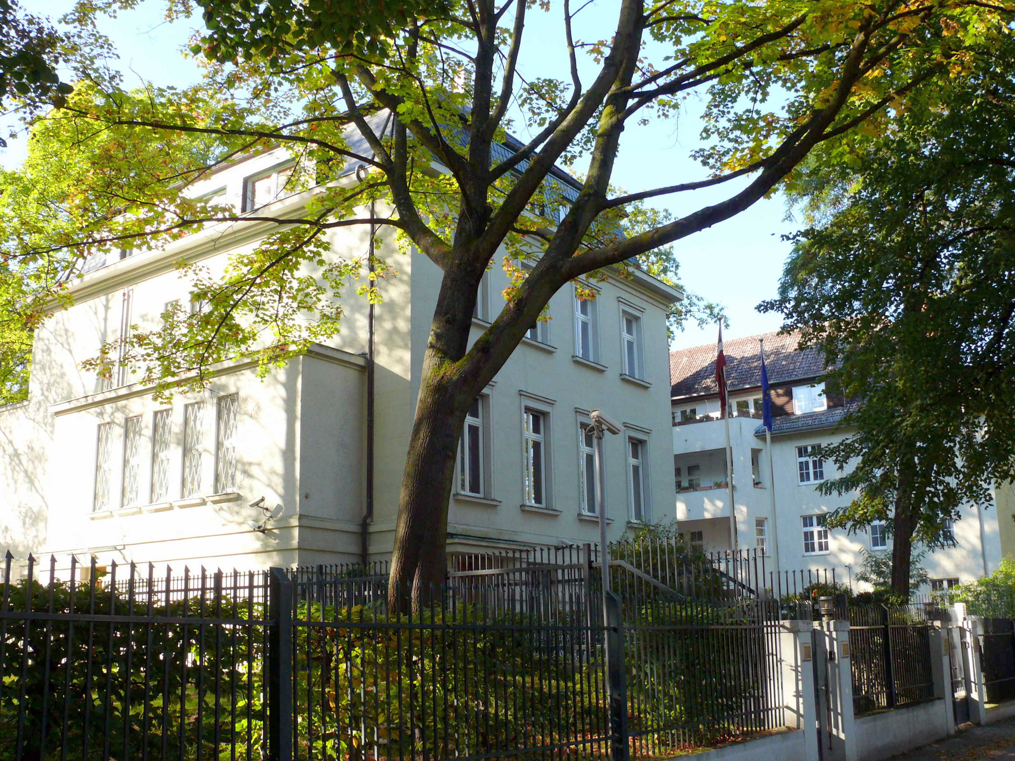 Berlin-Schmargendorf Reinerzstraße Lettische Botschaft